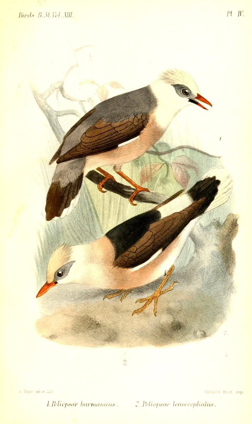 Vinous-breasted Myna